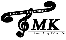 Logo FMK